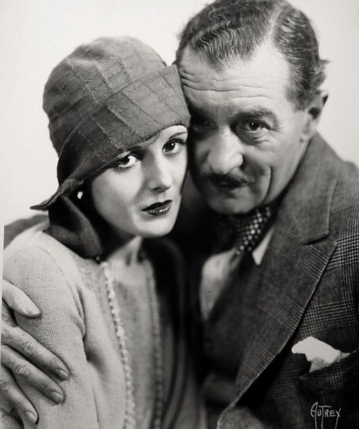 Mary Astor and Albert Conti in Dry Martini (1928) - publicity still